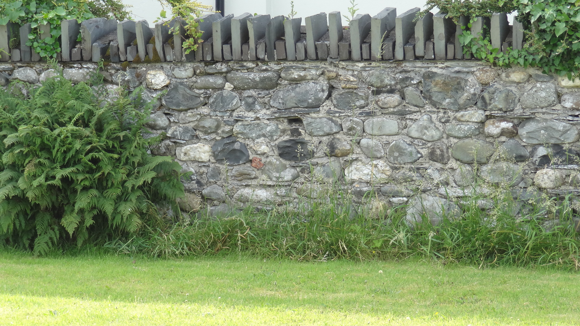 Stone wall surrounding Bethel, Tywyn, Gwynedd